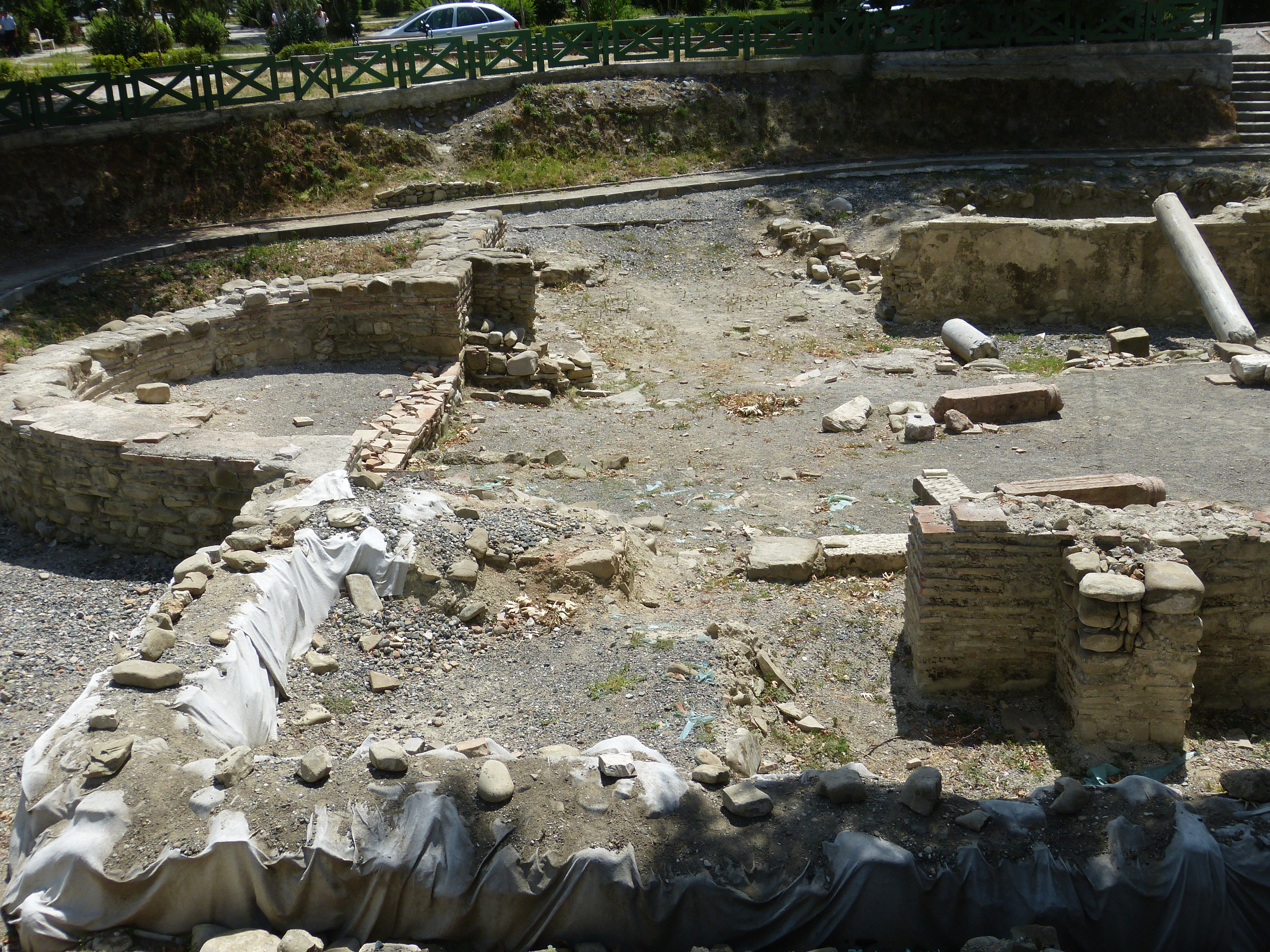 Elbasan ( Albania ). Paleochristian basilica ( 5th/6th century AD ) in Bezistan area.